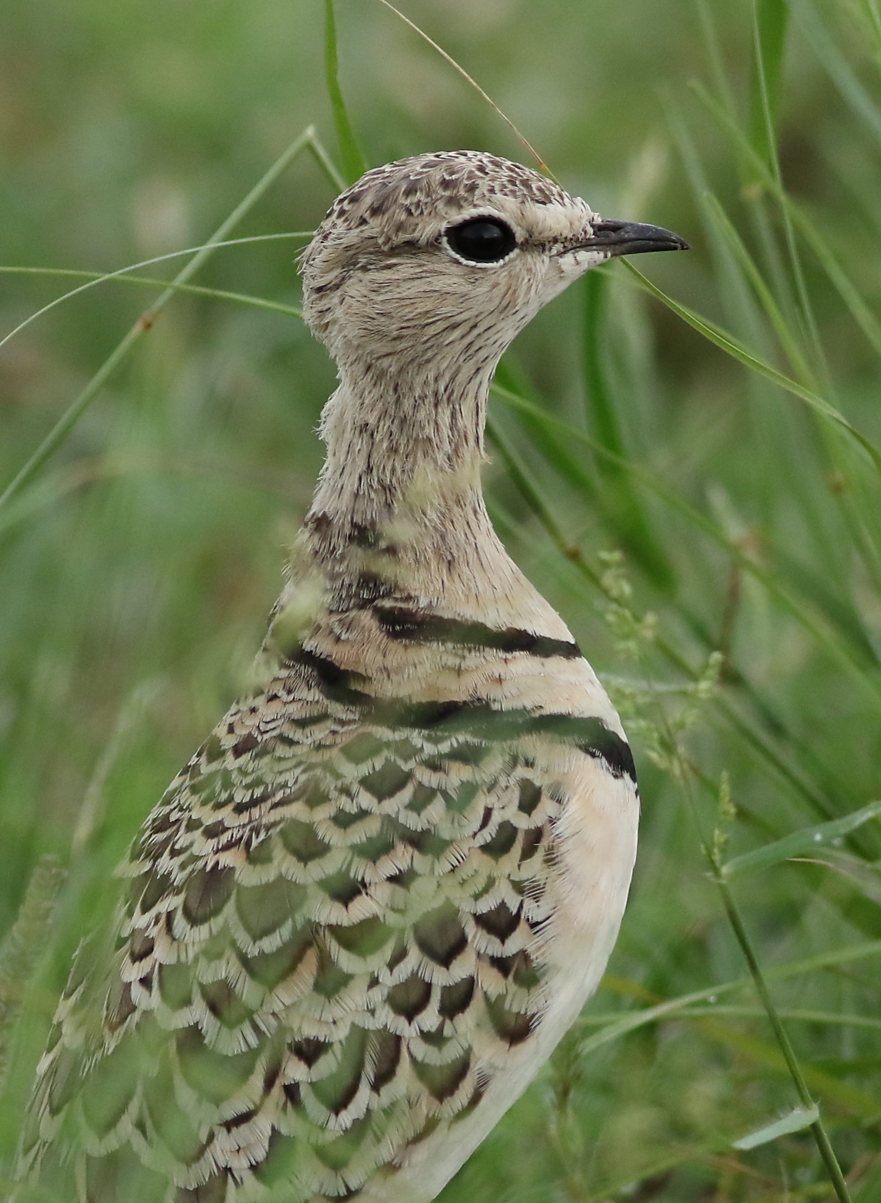 Double-banded courser (two-banded courser), Smutsornis africanus, at the Khama Rhino Sanctuary, Botswana